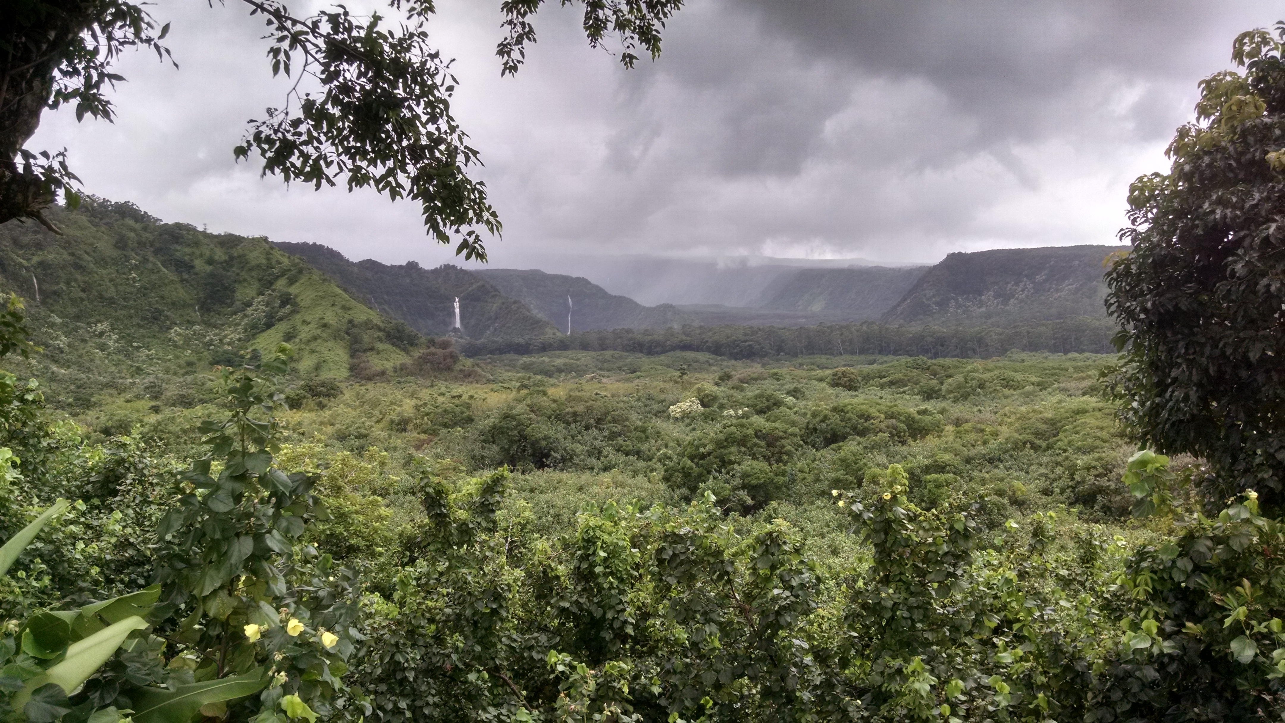 This picture was taken from the Wailua Valley State Wayside. I highly recommend stopping here if you're driving by. The view is amazing. There's also a Wailua Valley hike that I regret not doing